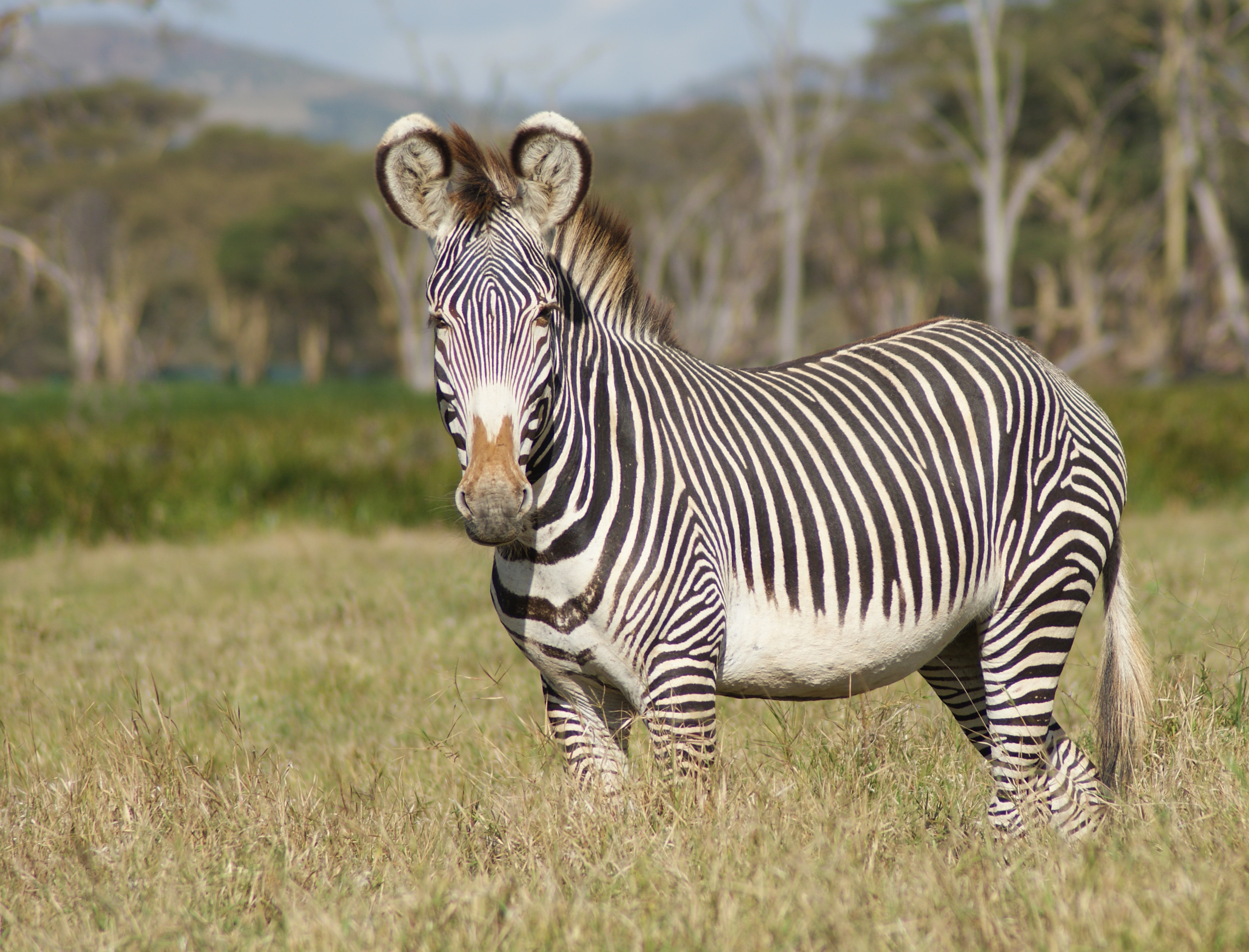 The Lewa Zebra